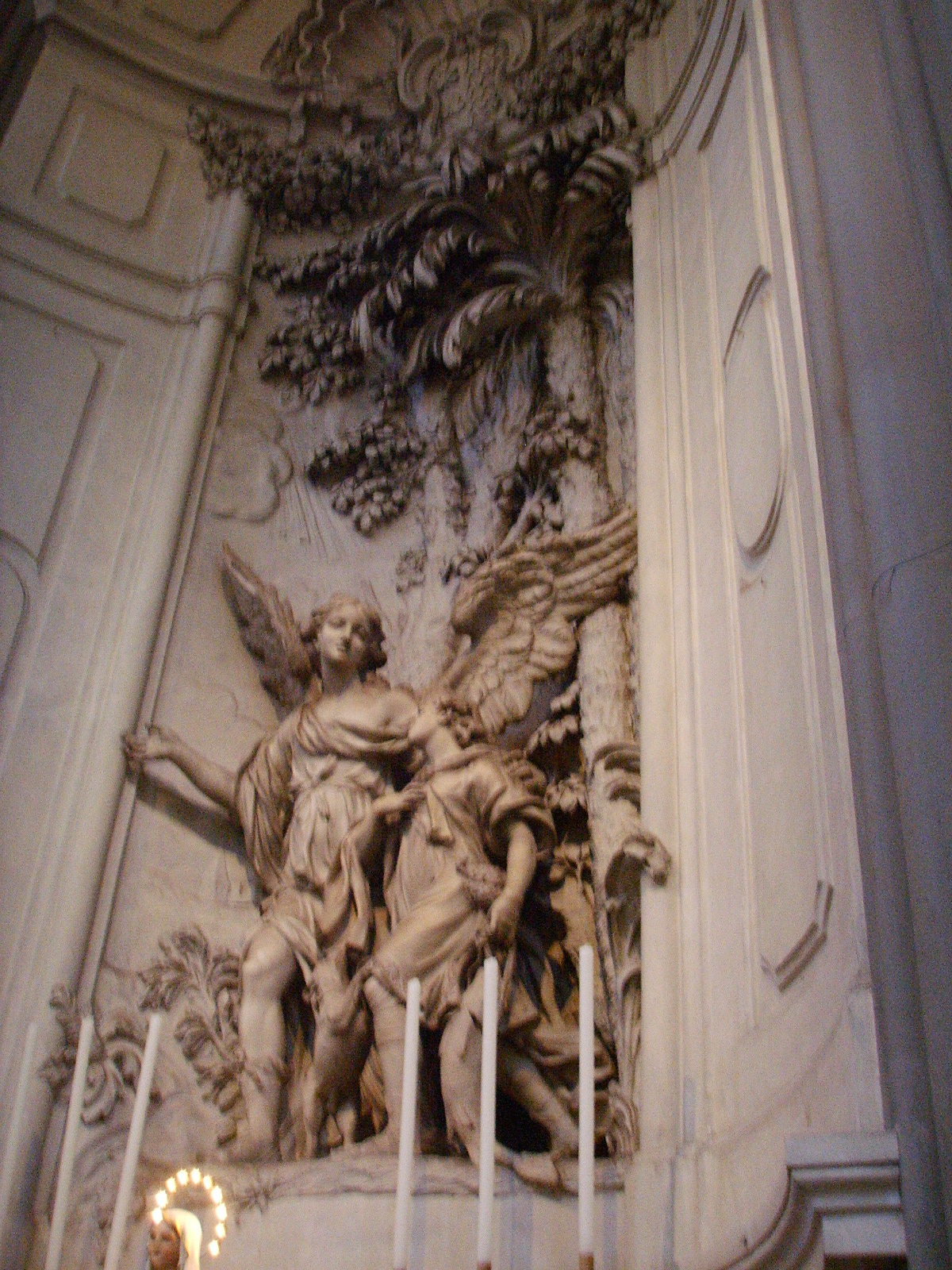 Don't see filename.